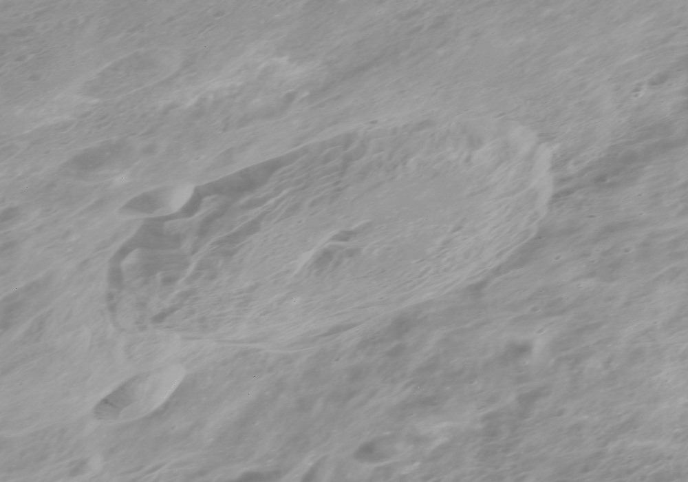 Oblique view of Plutarch crater, on the moon. Brightness and contrast adjusted.